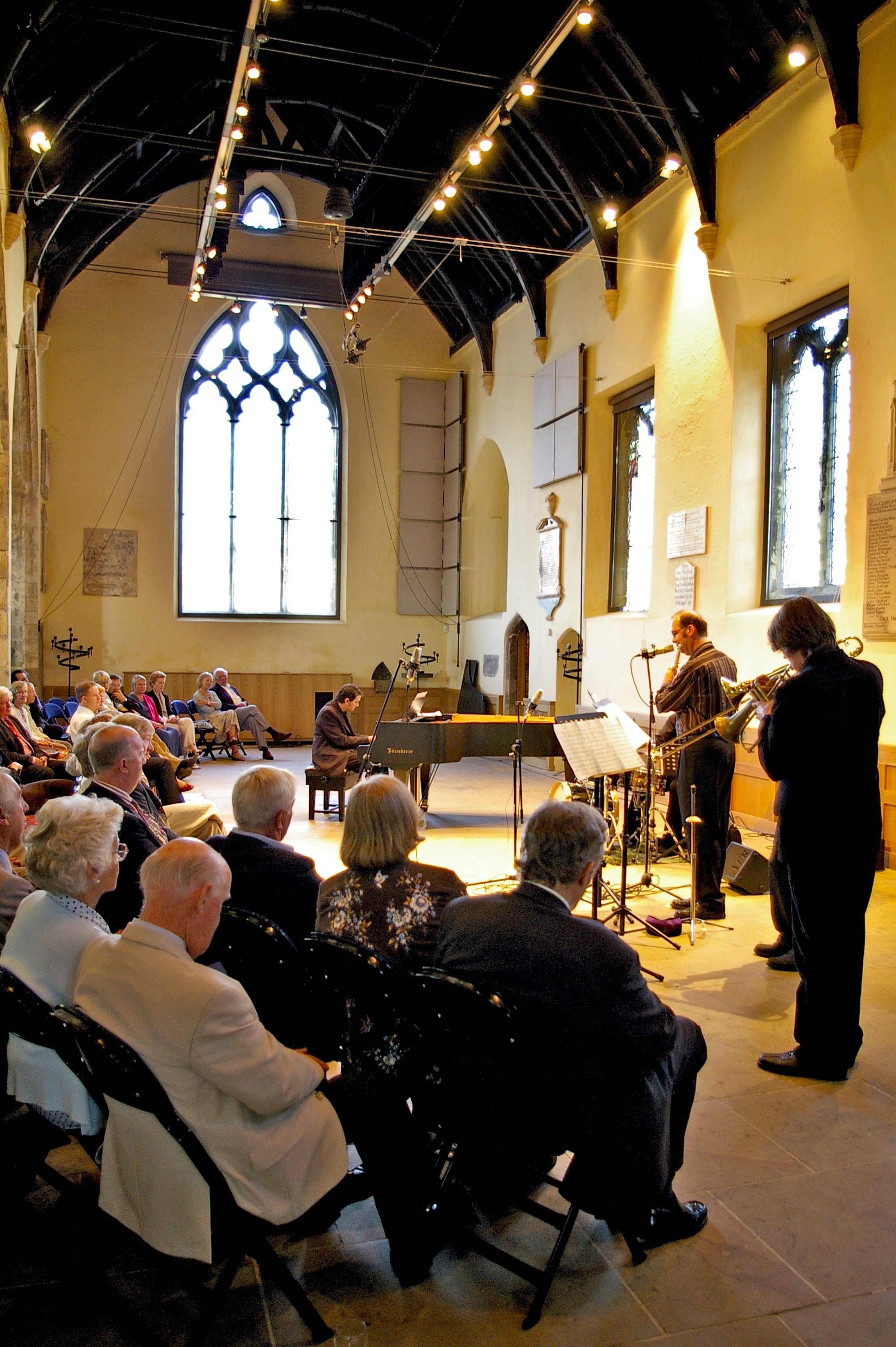 Interior performance space of the converted St Margaret's Church during a concert